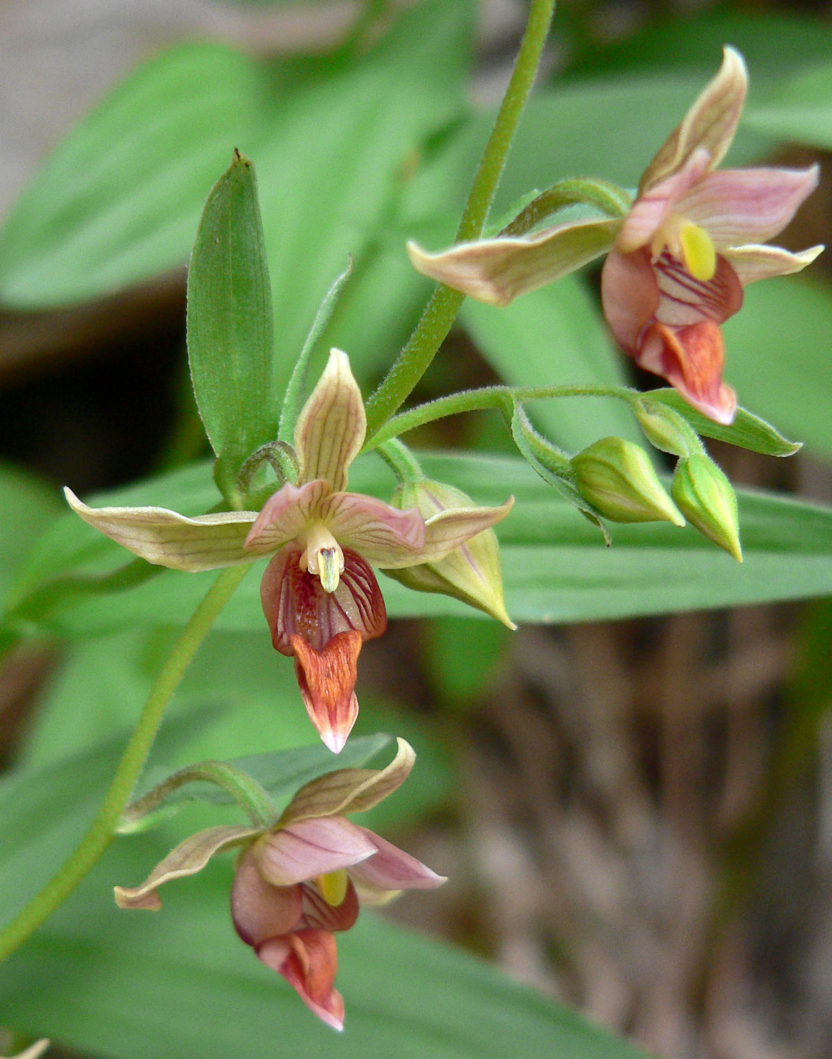 Epipactis gigantea in Pine Creek Canyon, Red Rock Canyon, Spring Mountains, southern Nevada (NNPS field trip)